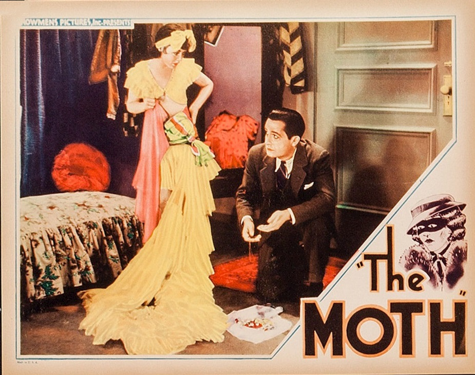 Lobby card from the American film The Moth (1934).